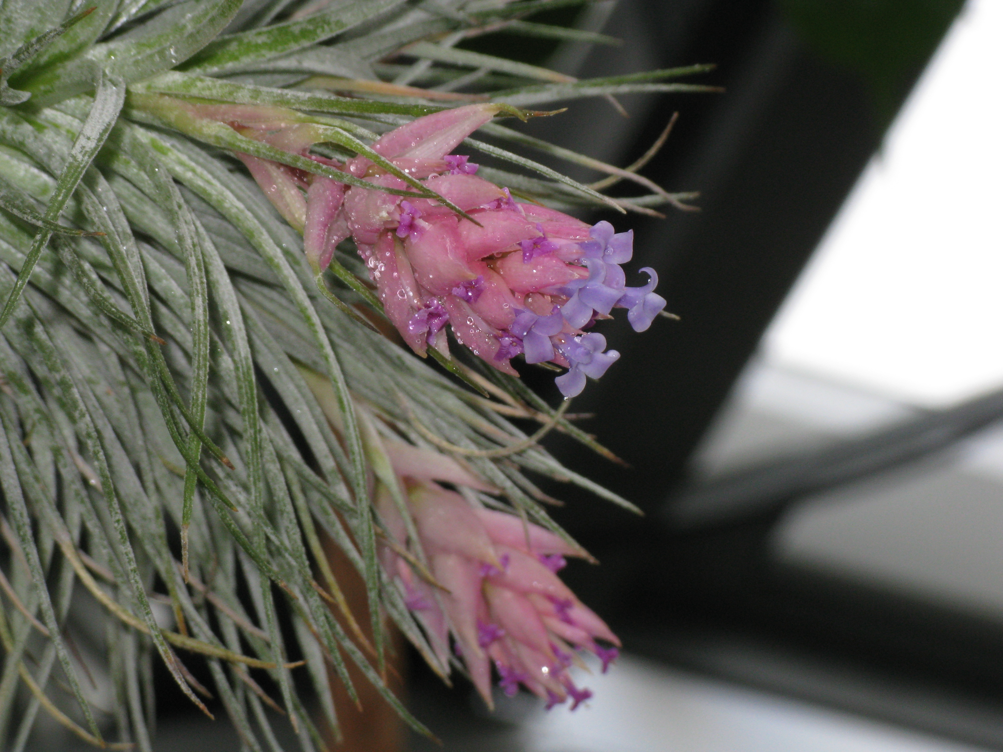 Tillandsia oaxacana Place:Osaka Prefectural Flower Garden,Osaka,Japan